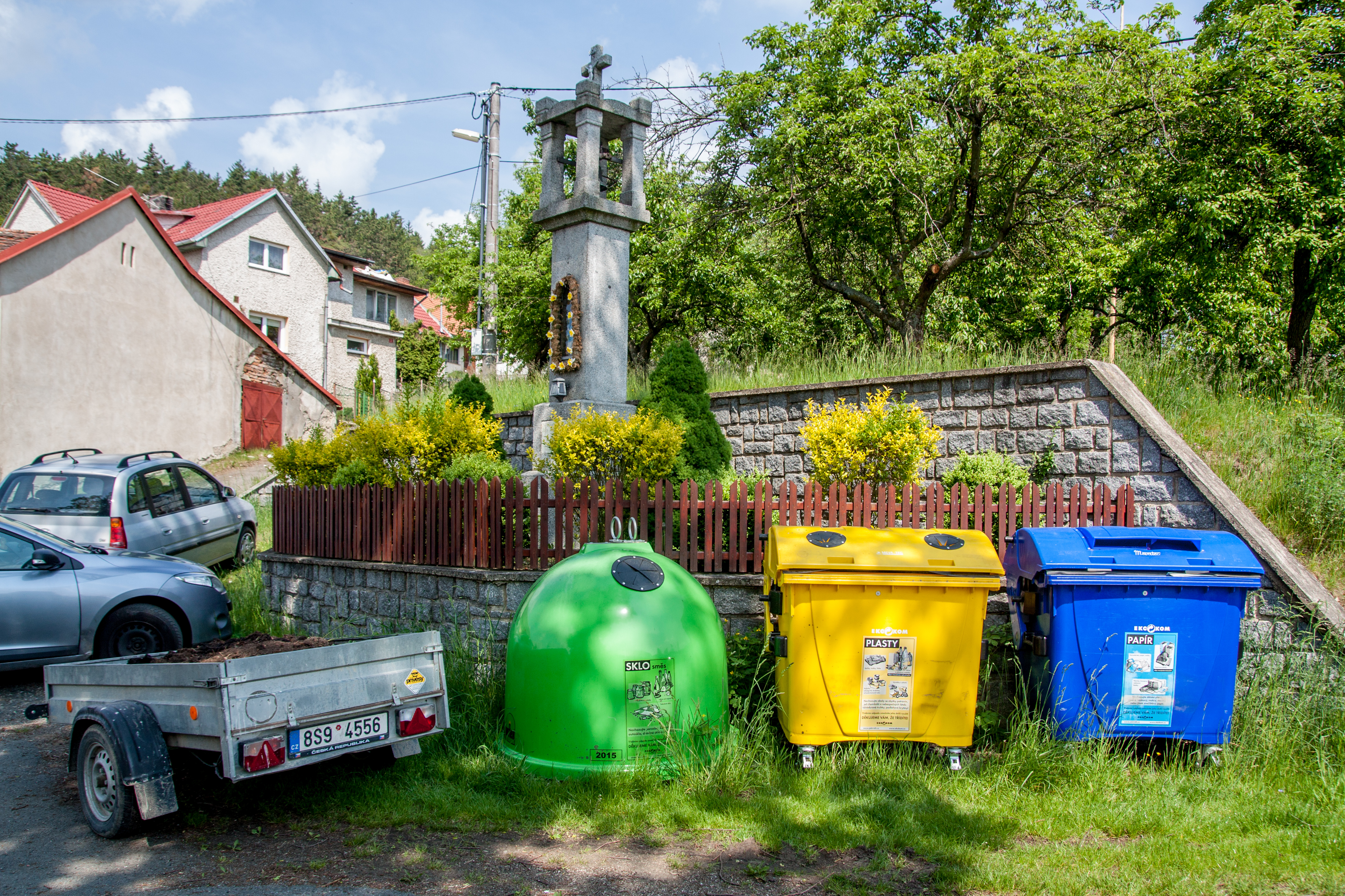 Sorted waste bins in village Hulín, Příbram District, Central Bohemian Region, Czechia